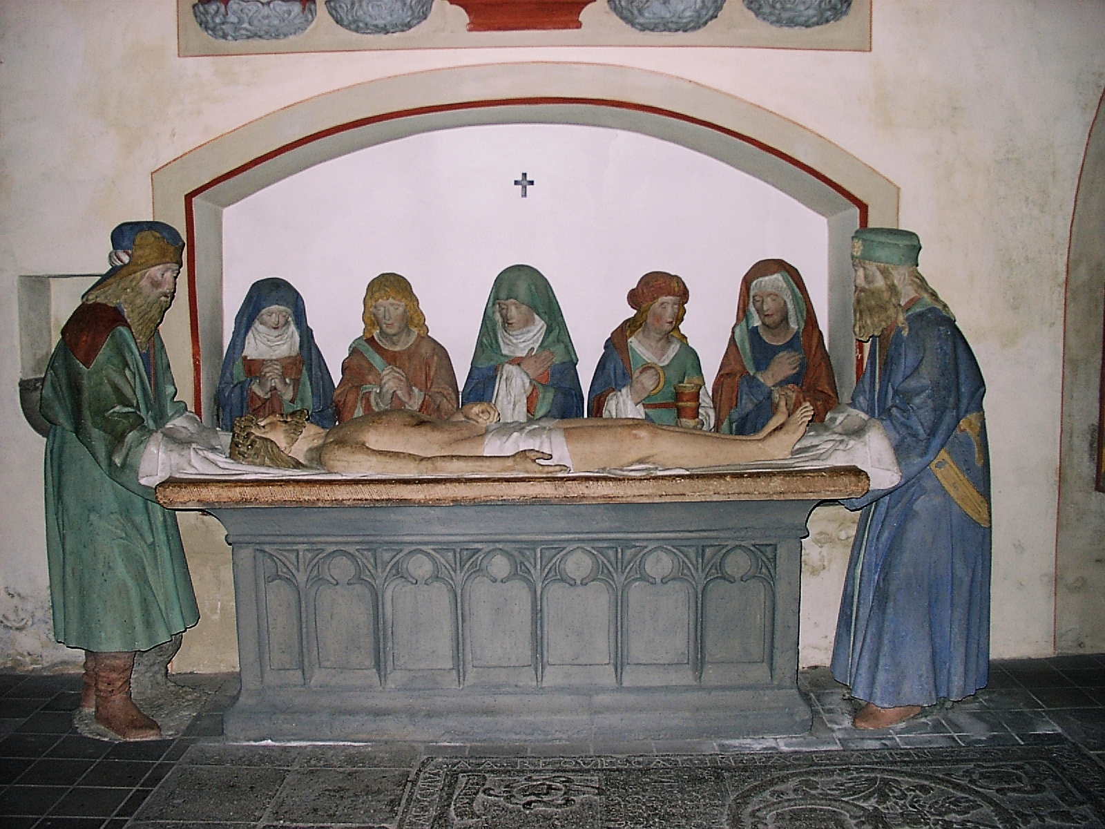 Sculpture „Holy Sepulchre - Entombment of Christ”, Maifeldmünster (former collegiate church) St Martin and St Severus in Münstermaifeld, Germany